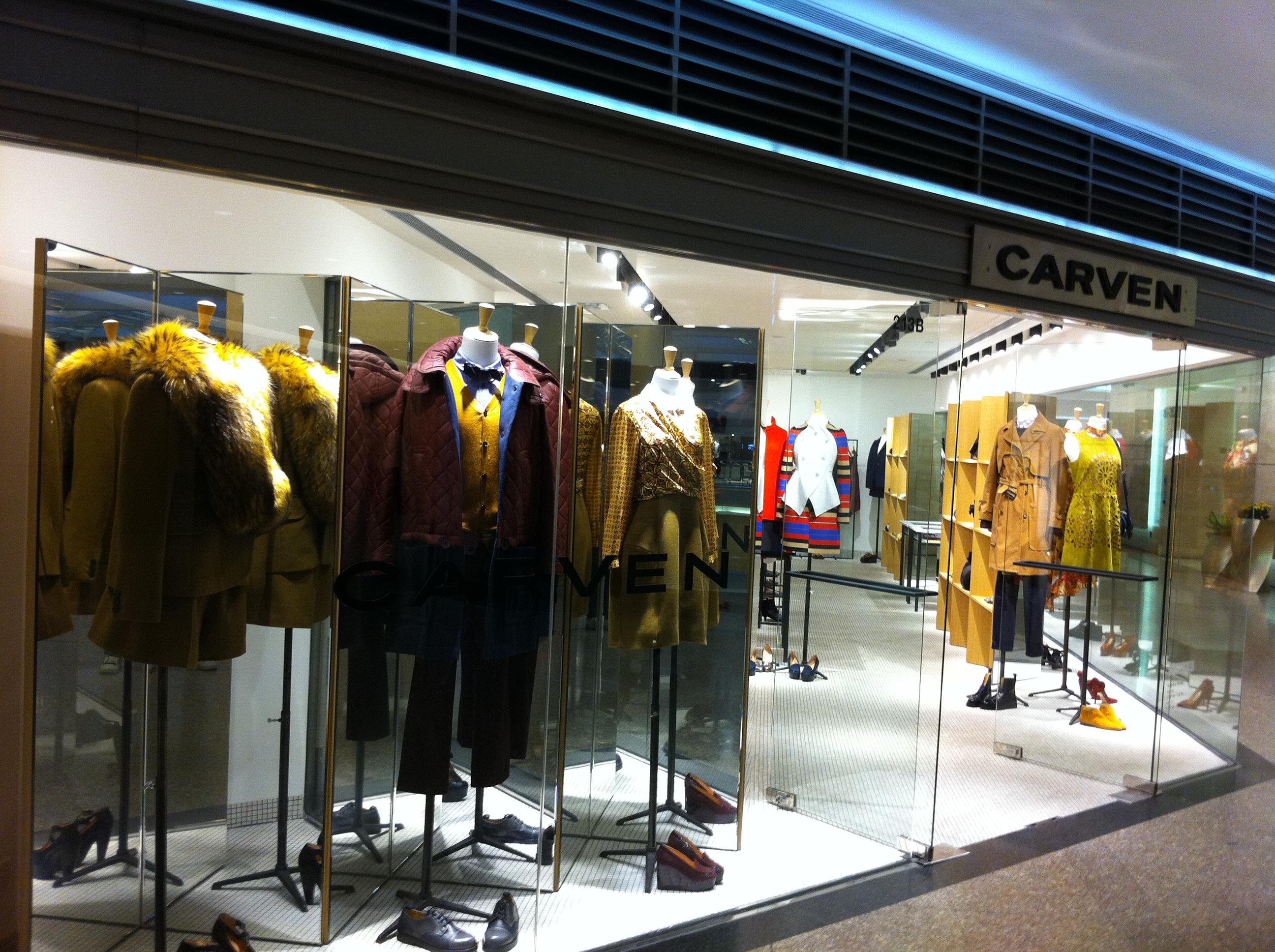 Carven clothing shop in Landmark, Central, Hong Kong